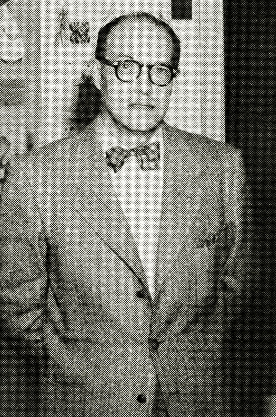 Douglas George Preston (1904–1978) as a member of the school board of Fairbanks, Alaska in 1953. He served as mayor of Fairbanks a short while after that.